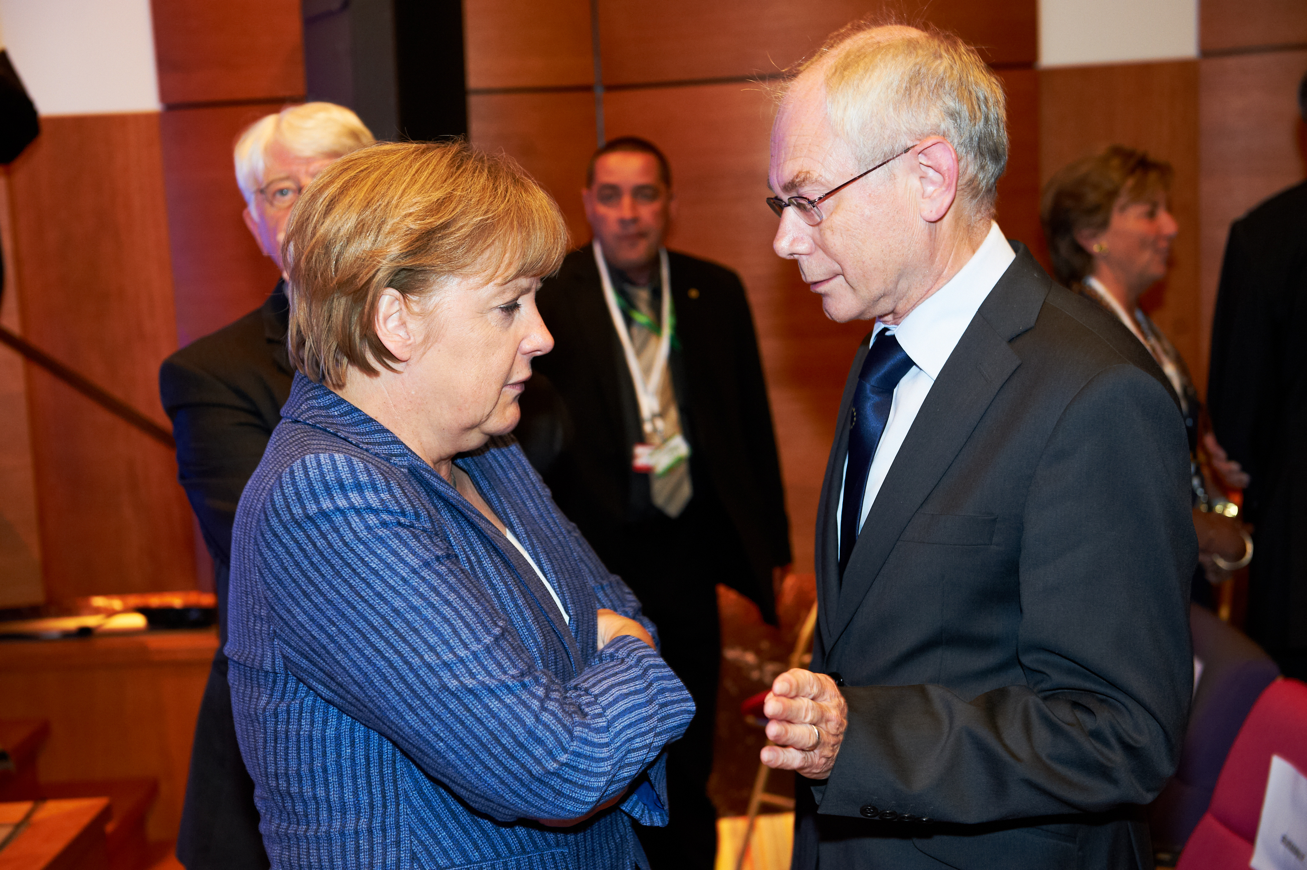 EPP 35th anniversary event